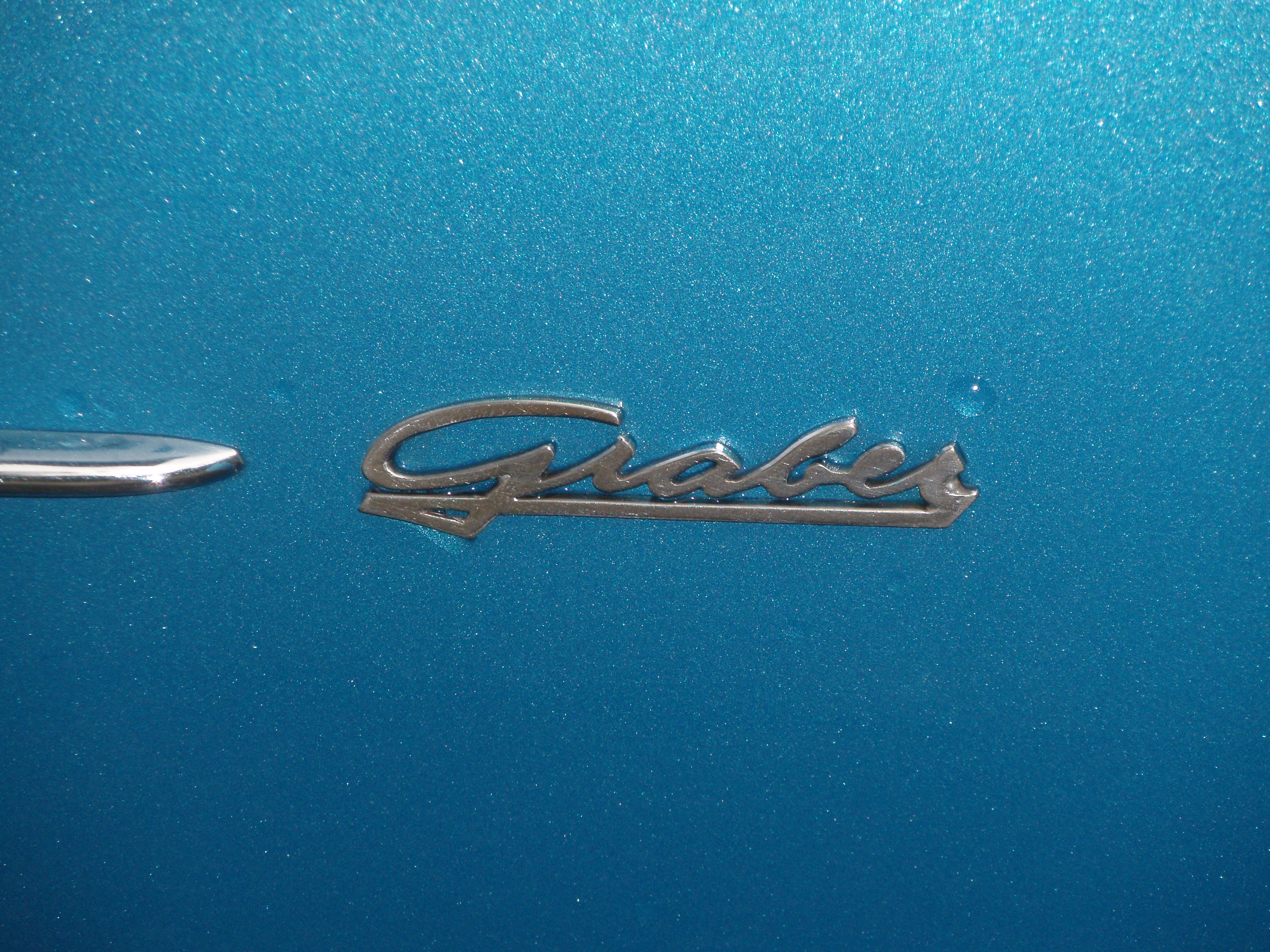 "Graber" coachbuilder logo on a 1964 Alvis TE21 Graber Super coupé